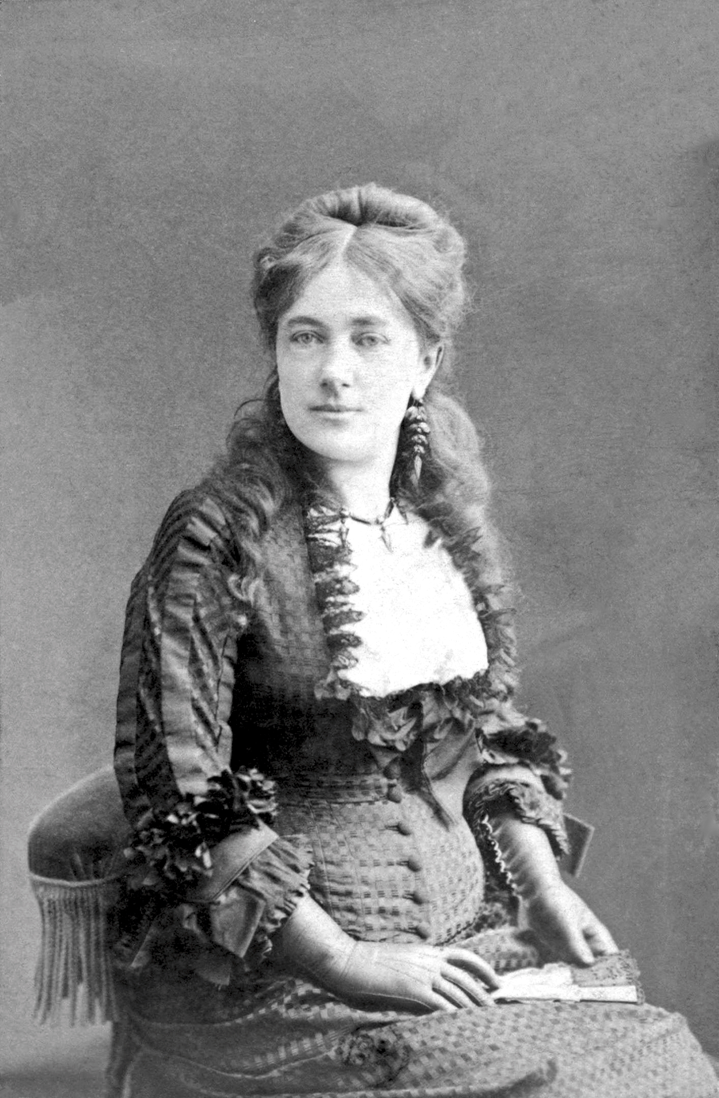 Photograph of Juliette Adam (1836–1936) French author and feminist.